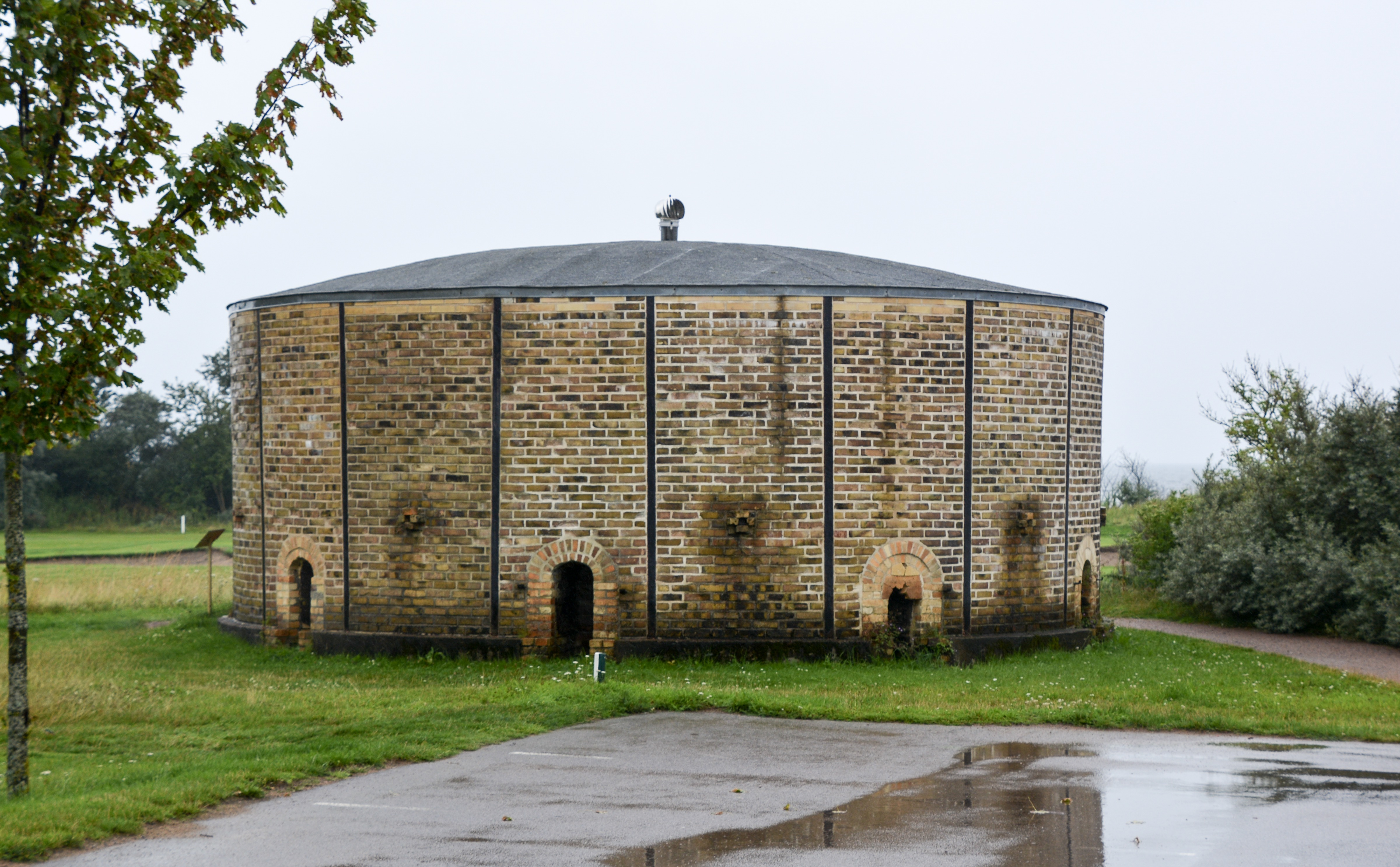 Tegelugn vid nedlagda Rydebäcks tegelbruk